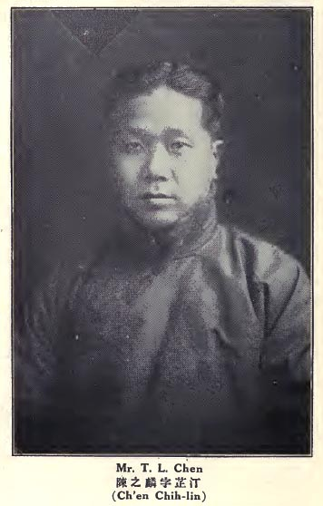 Chen Zhilin (？-？)